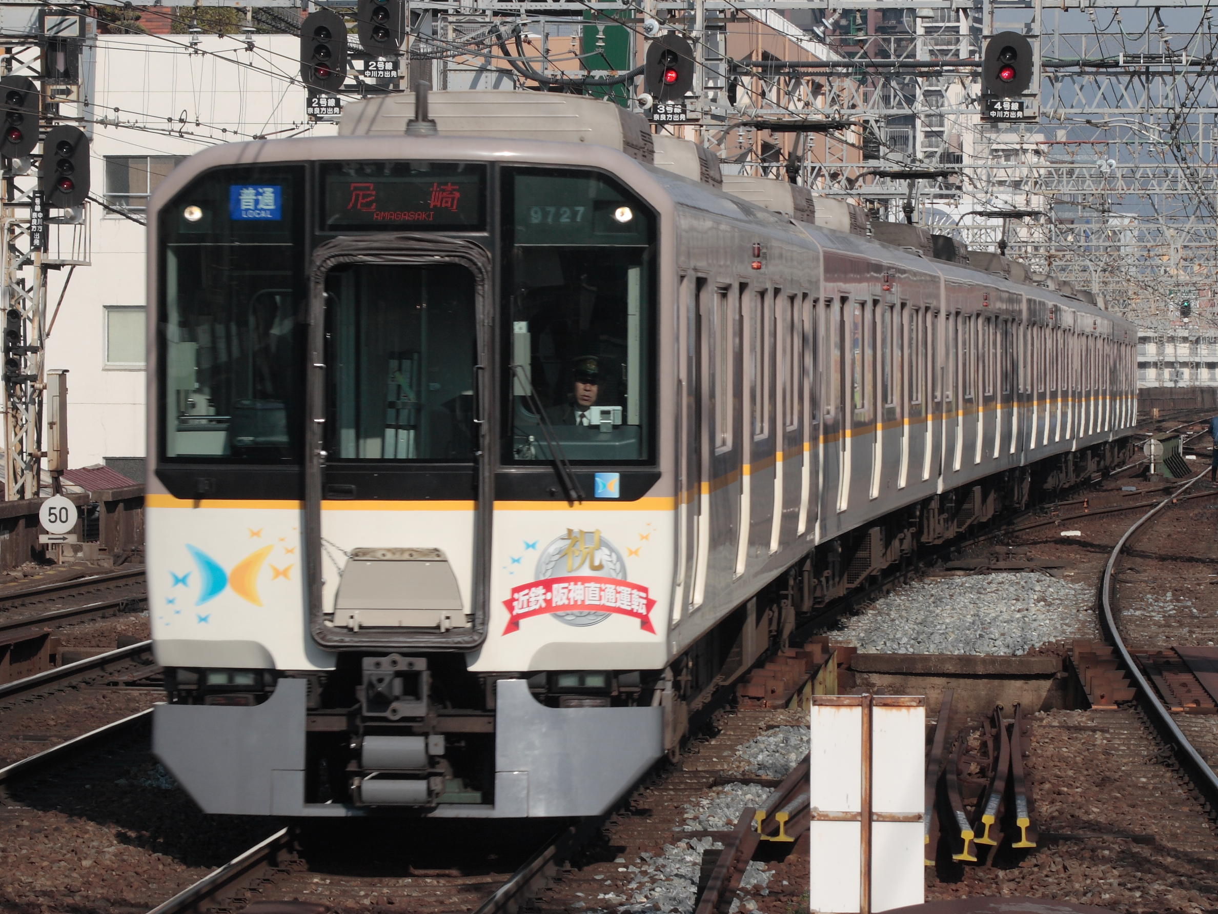 Kintetsu 9820